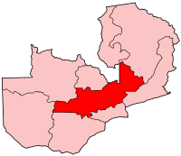 Map of Zambia showing Central province.